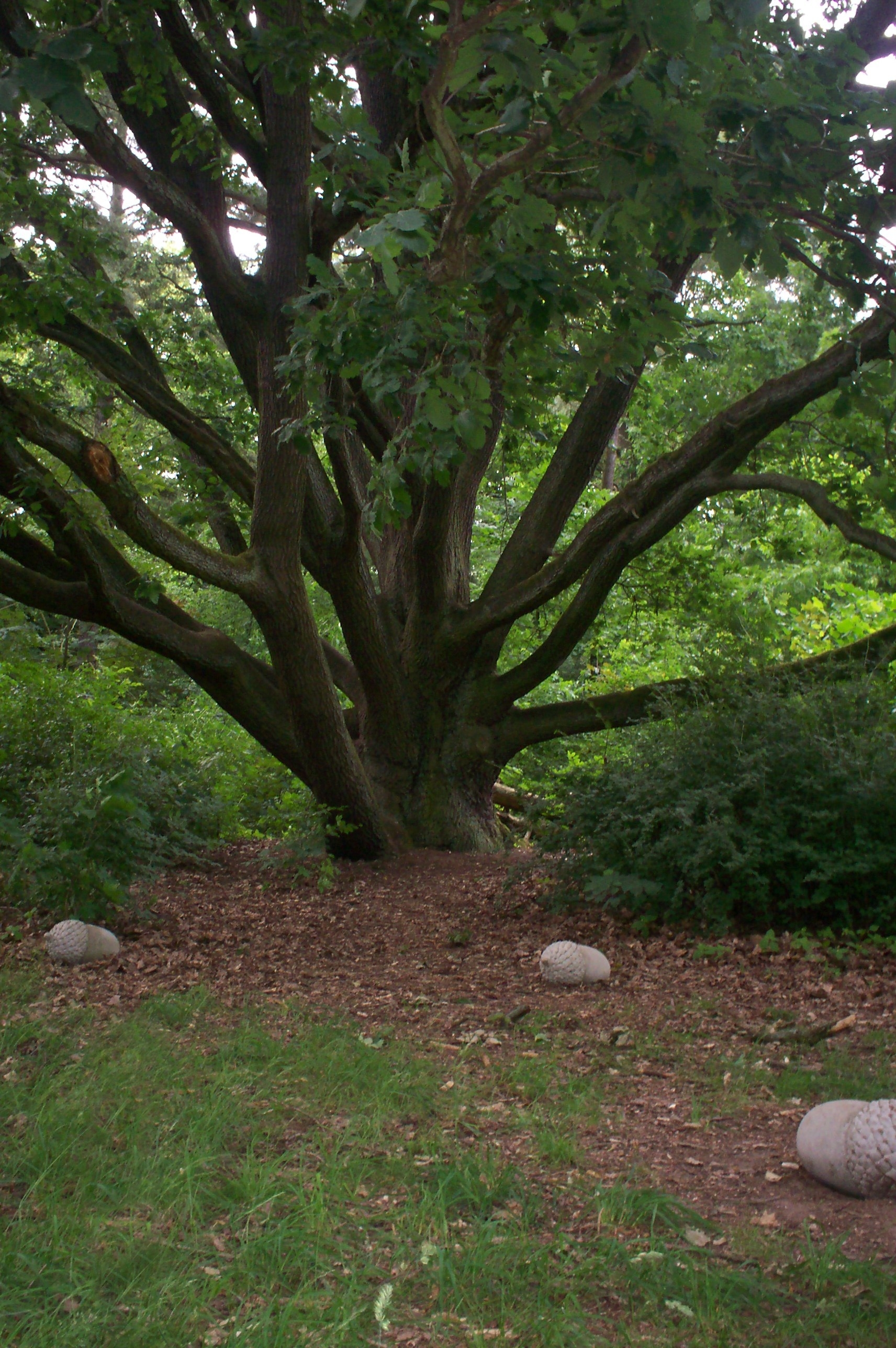 Peacock Island: An oak with acorn sculptures